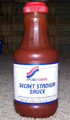 Secret Sauce Photo